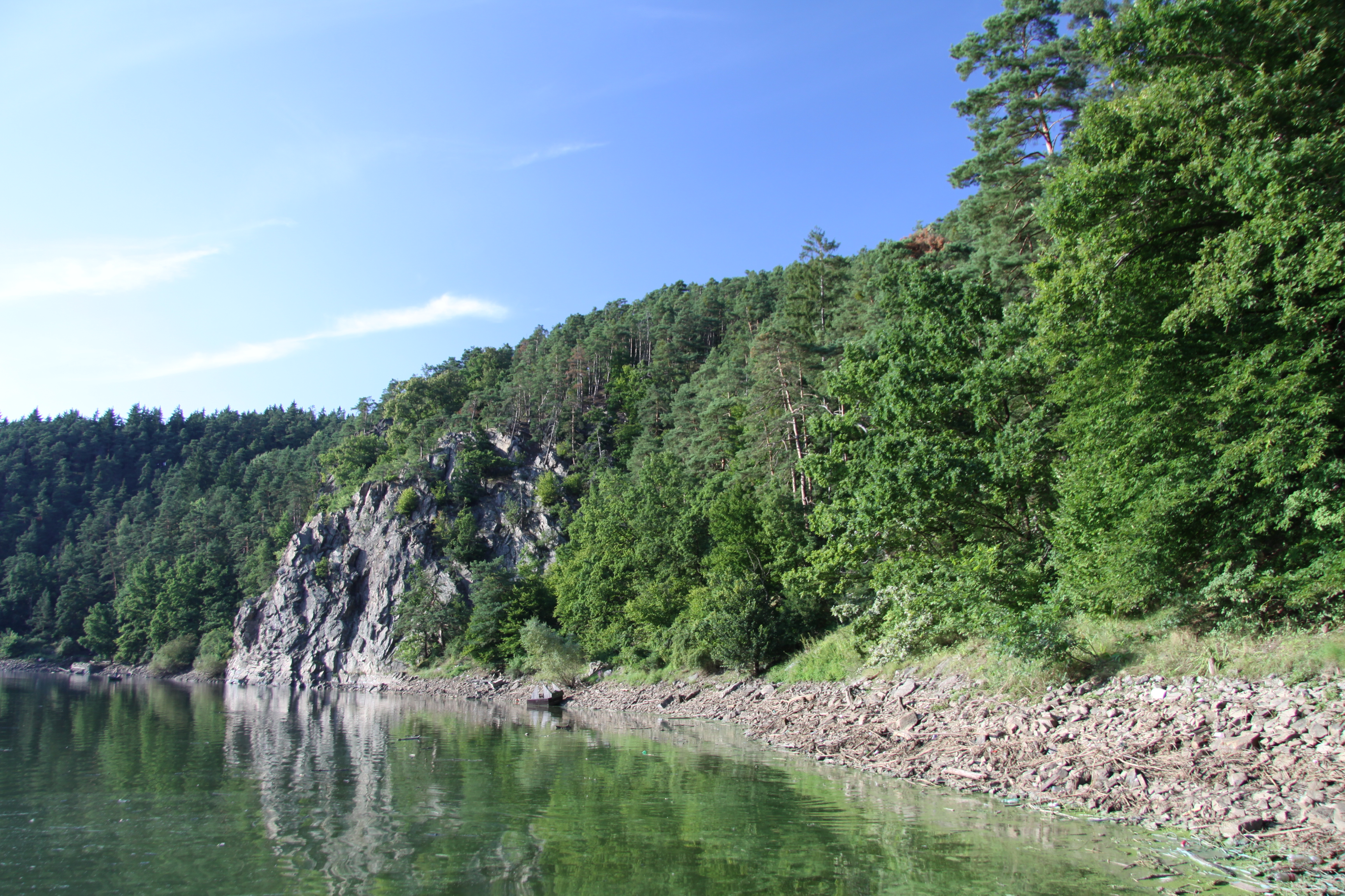 Natural reservation called "Výří skály u Oslova" near Tukleky village on the bank of Otava River, Písek District, Czech republic.